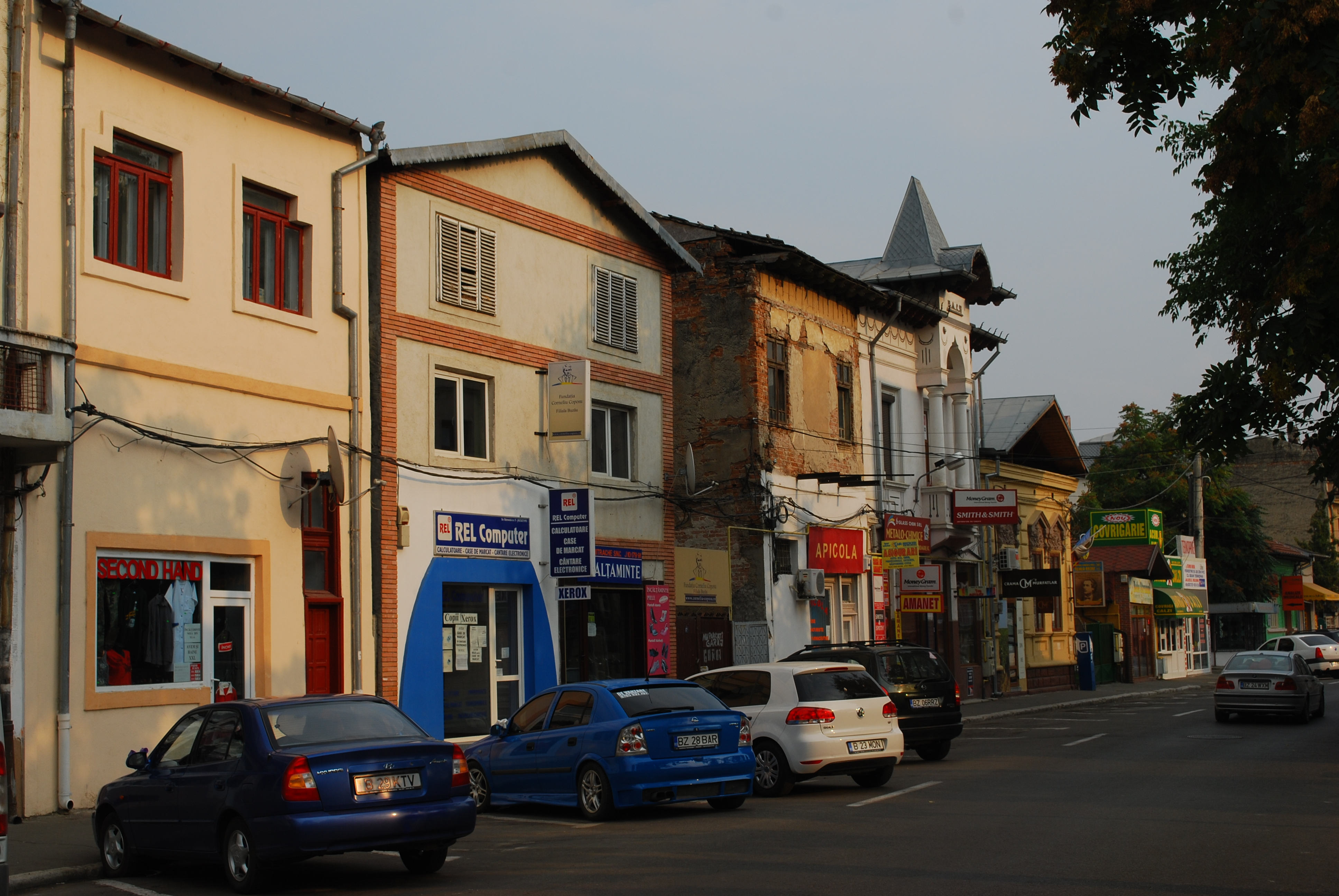 Ostrovului street in the historic center of Buzău, RomaniaRomână: Strada Ostrovului, în centrul istoric al oraşului Buzău, România